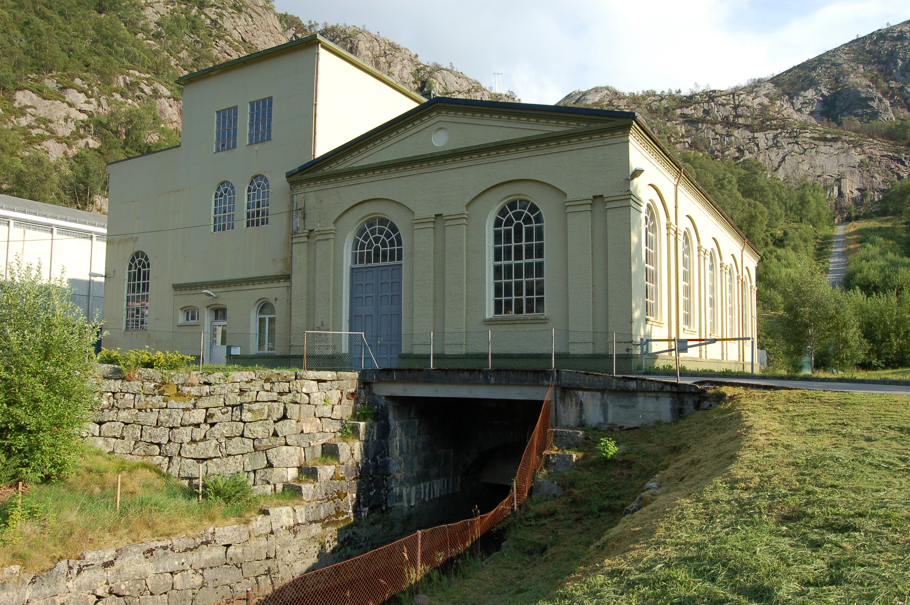 The old hydro power plant in Oltedal, Gjesdal, Norway